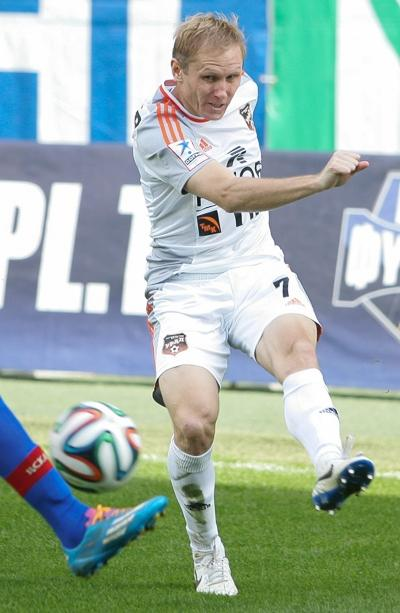 Aleksandr Dantsev with FC Ural Sverdlovsk Oblast in 2014.